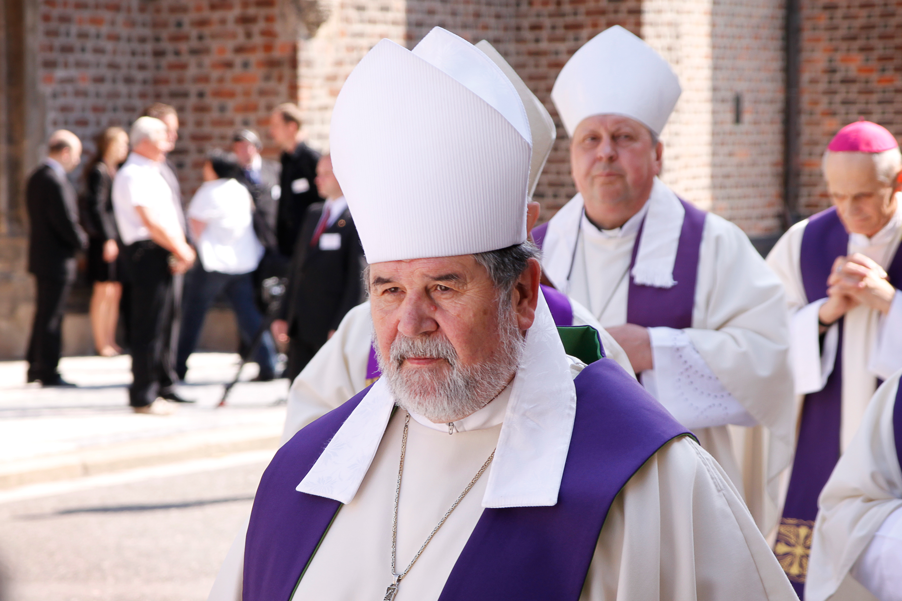 bishop Jiří Paďour